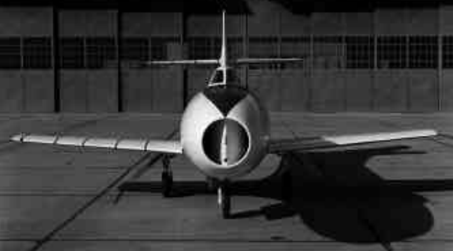 Front view of U.S. experimental aircraft Douglas D-558-1 Skystreak.